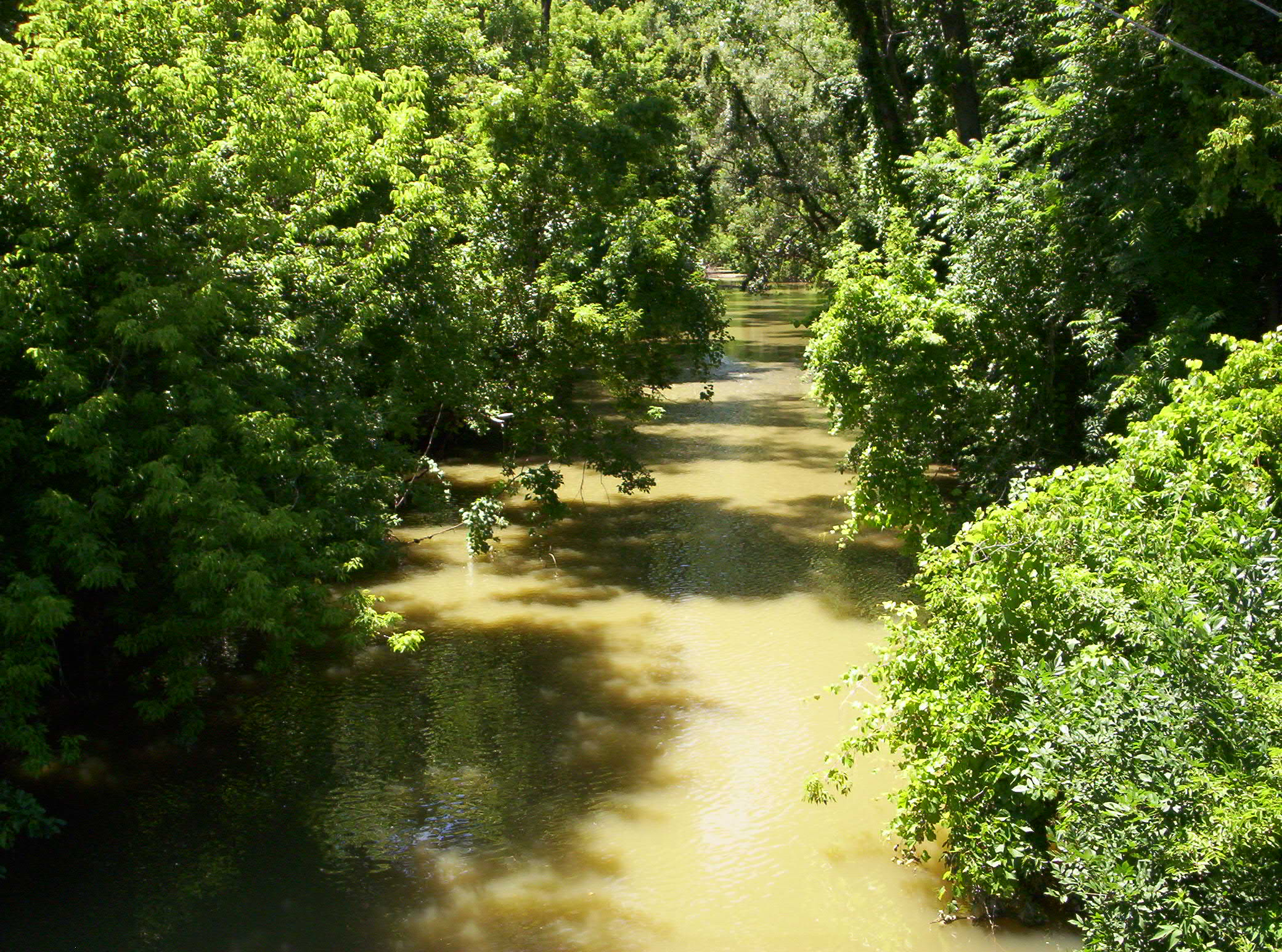 The Rocky Fork River from the South Illinois Avenue Bridge in Madison Township near Mansfield, Ohio. The Rocky Fork connects to the Black Fork Mohican River near Lucas, Ohio. - OpenStreetMap(Info)